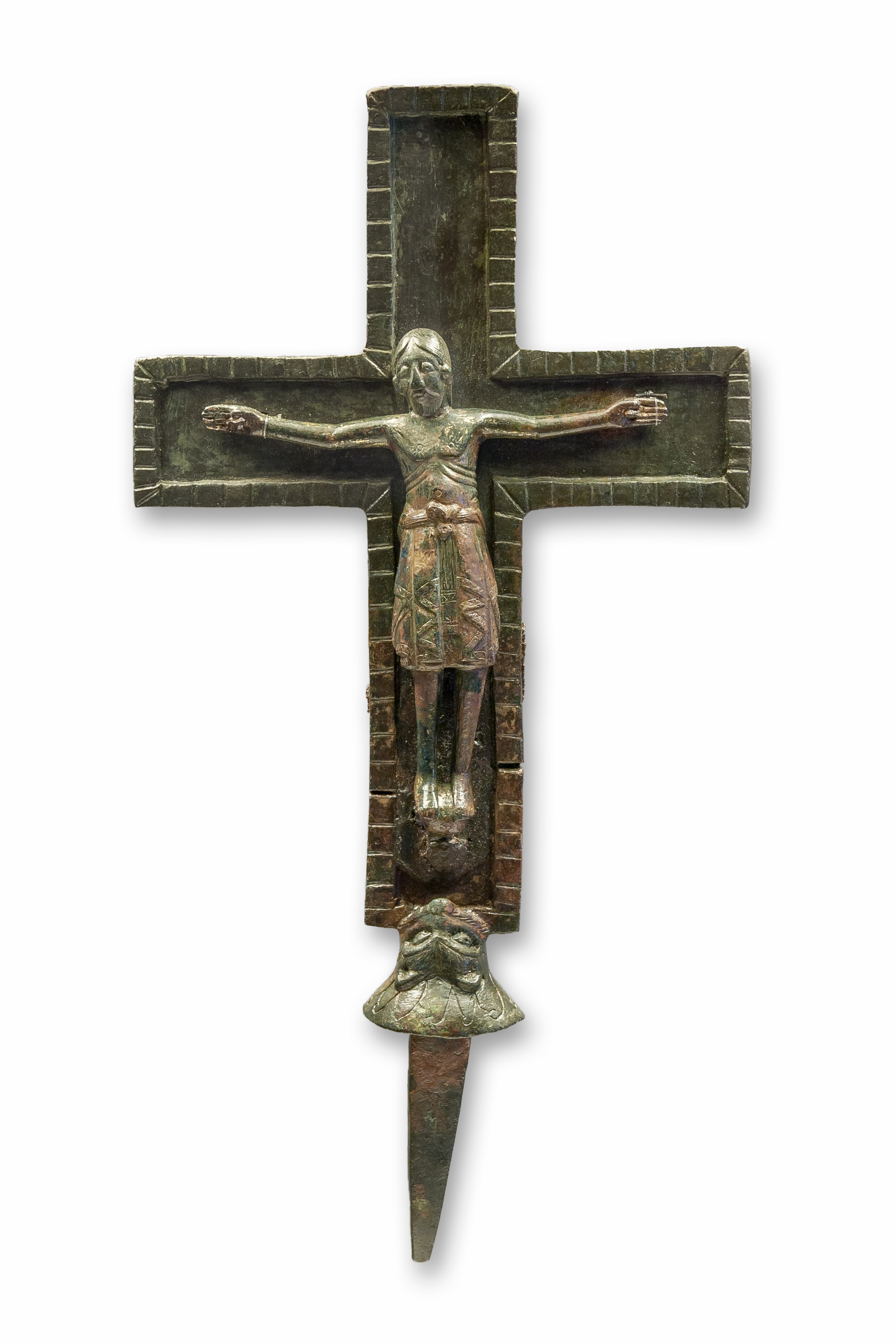 Romanic Crucifix, Rhineland ~1100/1150, Bronce A grave good, found and on Display in the Monastary of Eberbach, Rheingau, Germany